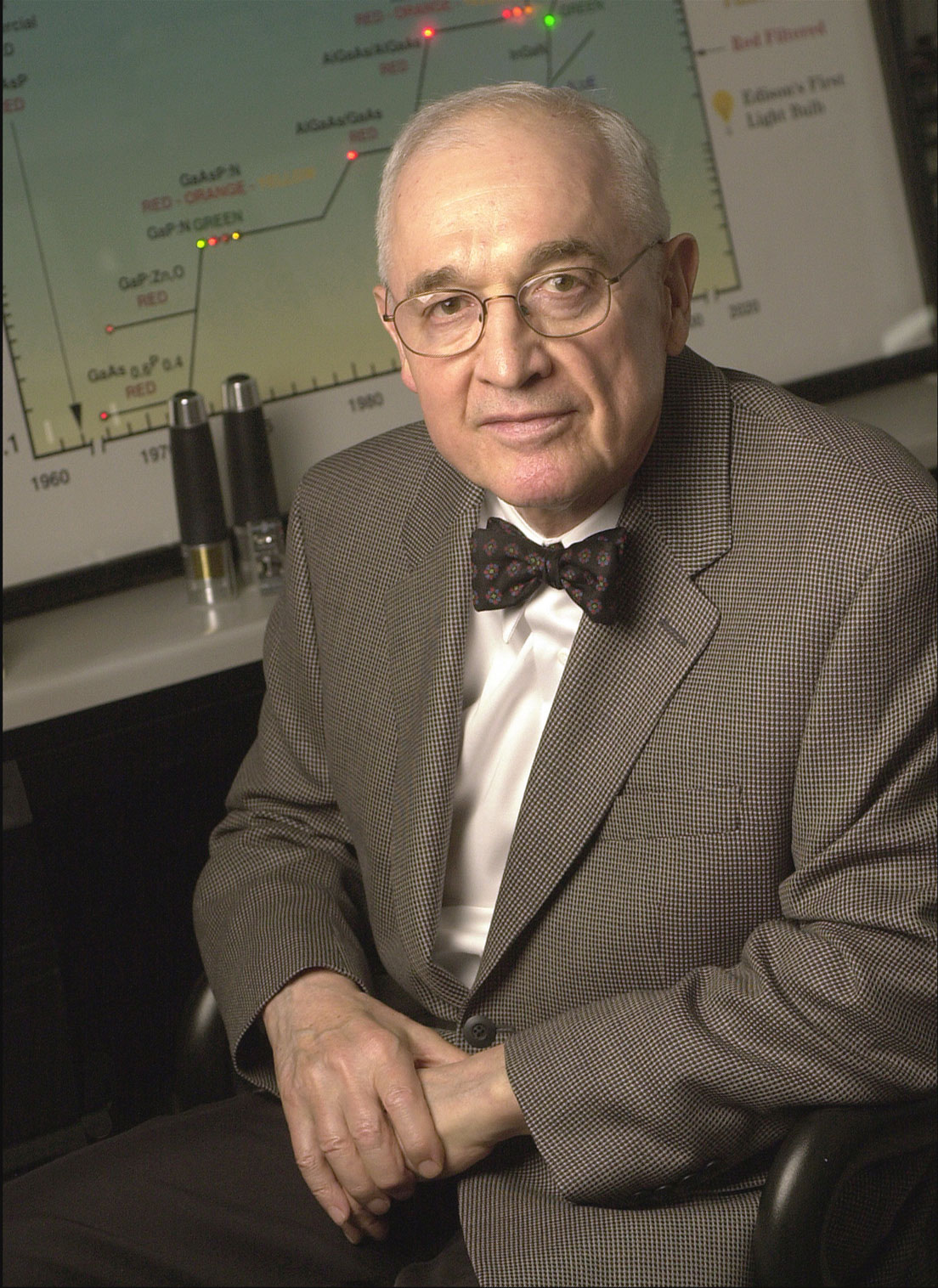 Photograph of Nick Holonyak, Jr. published in 2002 or earlier.